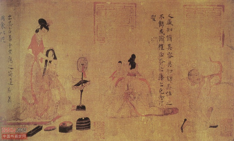 'Adorning Oneself', detail from 'Admonitions of the Instructress to the Palace Ladies' (女史箴图) Handscroll, ink and color on silk. 24.8 x 148.2 cm. See Barnhart, R. M. et al. (1997). Three thousand years of Chinese painting. New Haven, Yale University Press. ISBN 0-300-07013-6 pages 50-51.